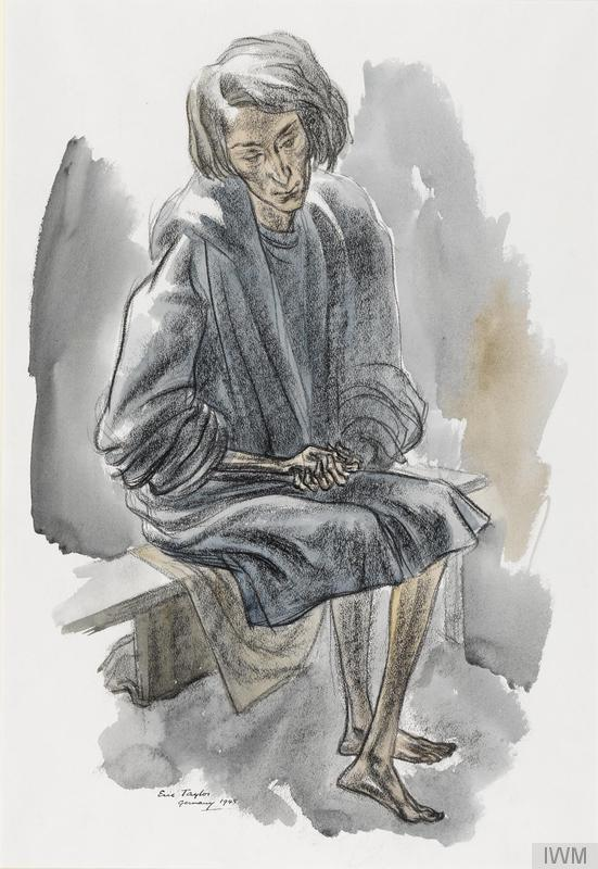 A full-length portrait of a very thin woman sitting on a bench